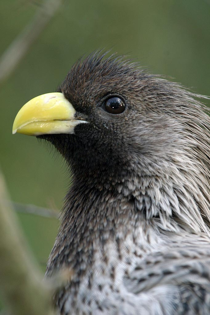 Photo of a Western Gray Plantain-Eater (Crinifer piscator) taken at the Nashville Zoo on October 21, 2005